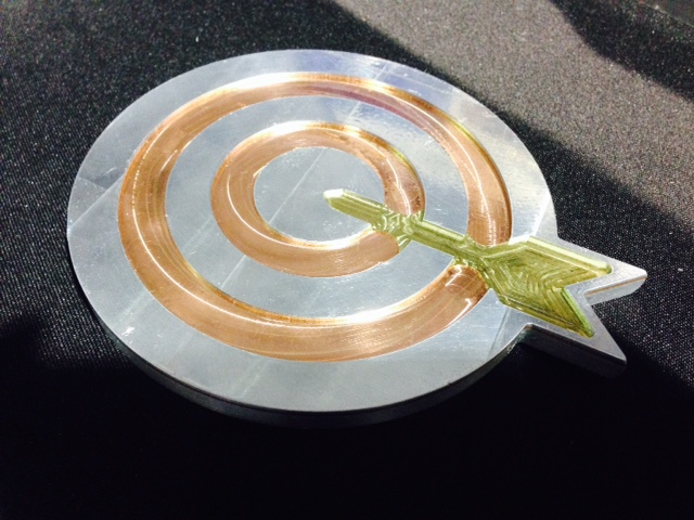 UAM demonstration of joining different kinds of metal together. Metals are brass, copper, and aluminum.